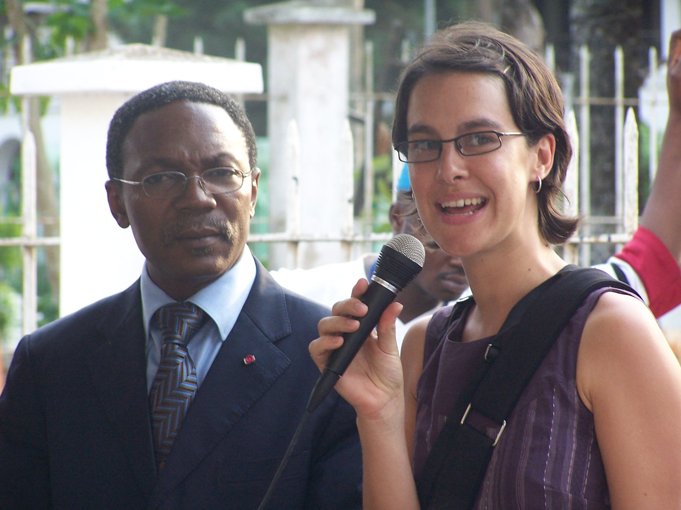 Ars&Urbis International Workshop 2007, Douala, March 2007. Photo by Paulin Tchuenbou for doual'art.